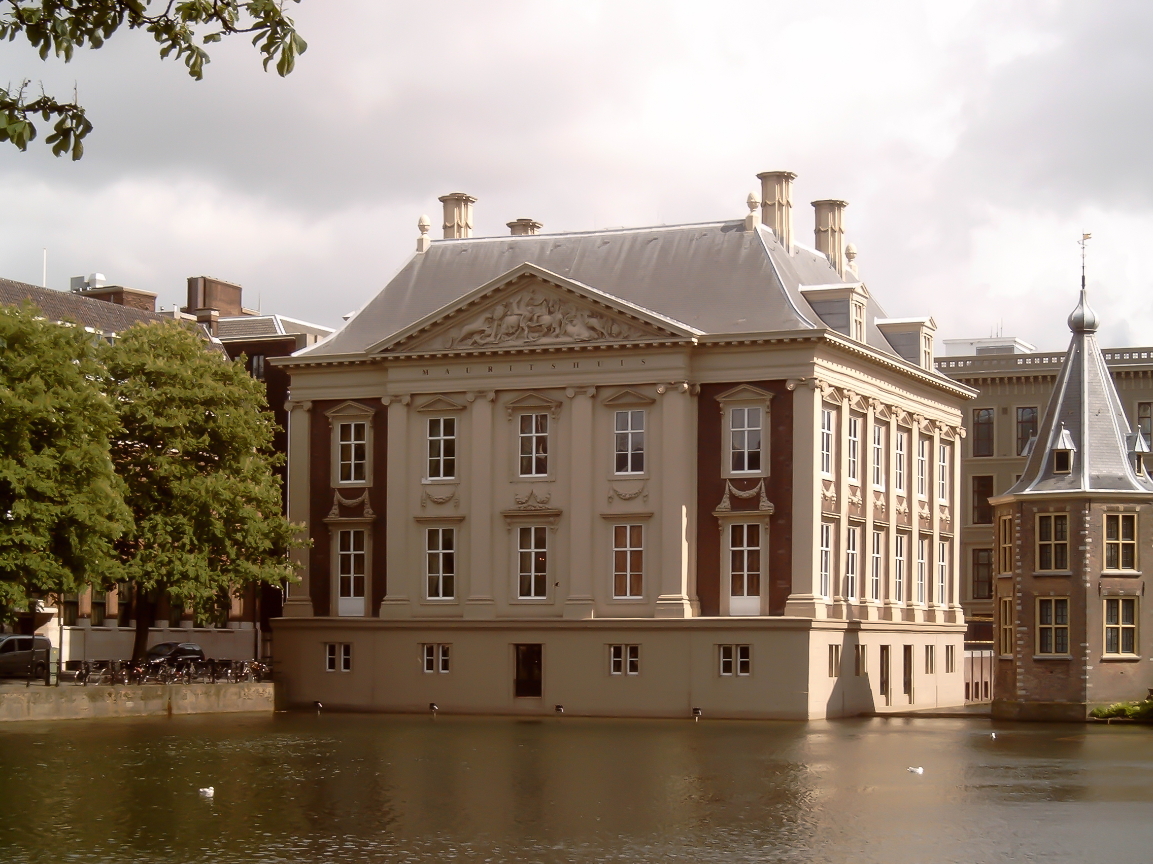 Royal Picture Gallery Mauritshuis, The Hague